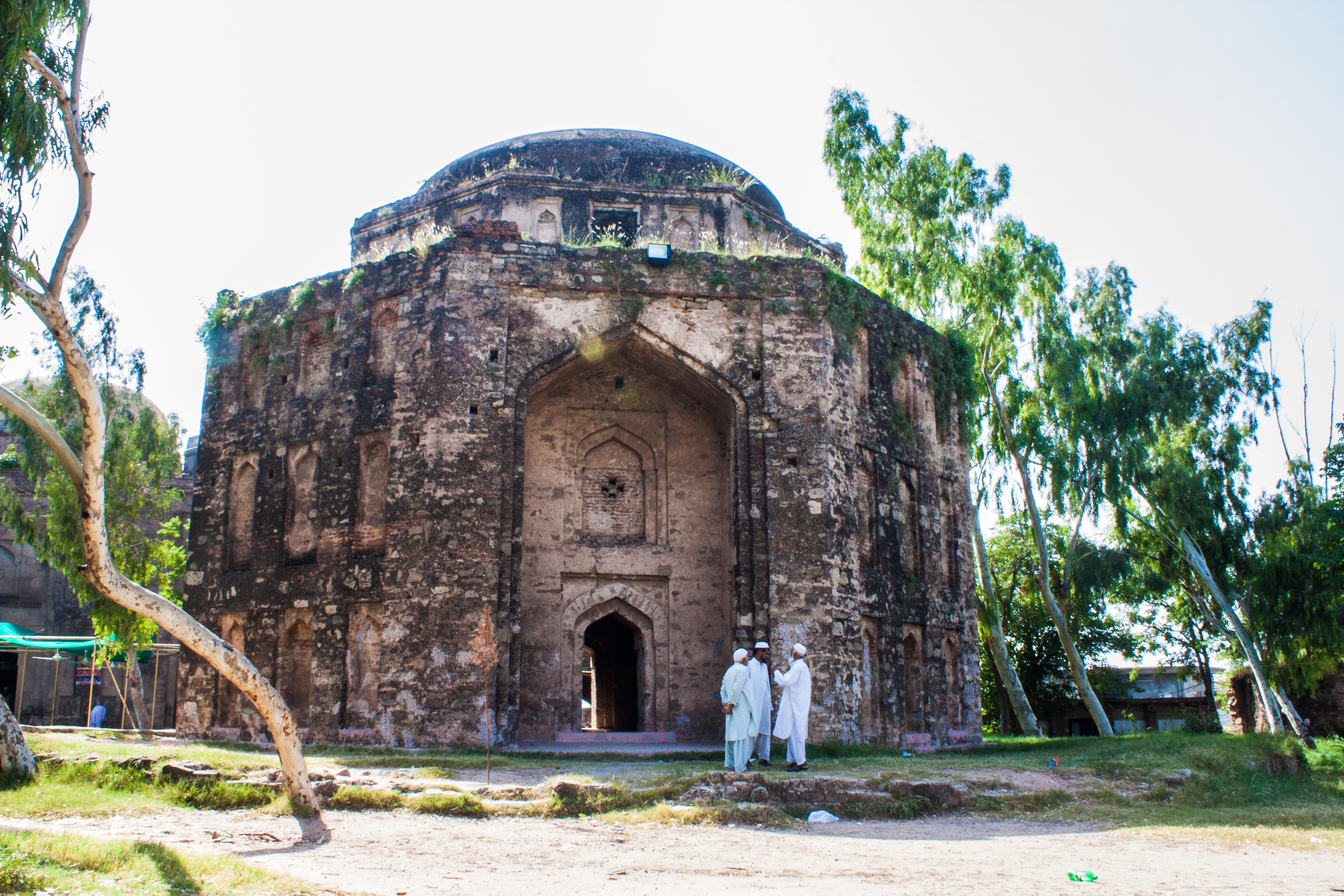 Rawat Fort Tomb This is a photo of a monument in Pakistan identified as the PB-132